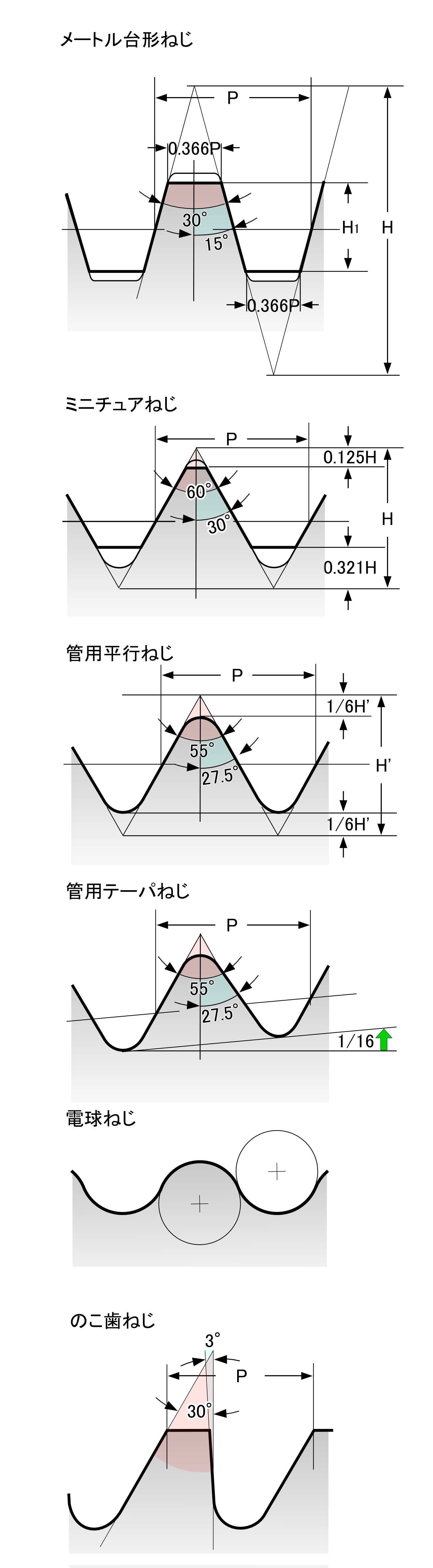 Screw (bolt) 20B-J